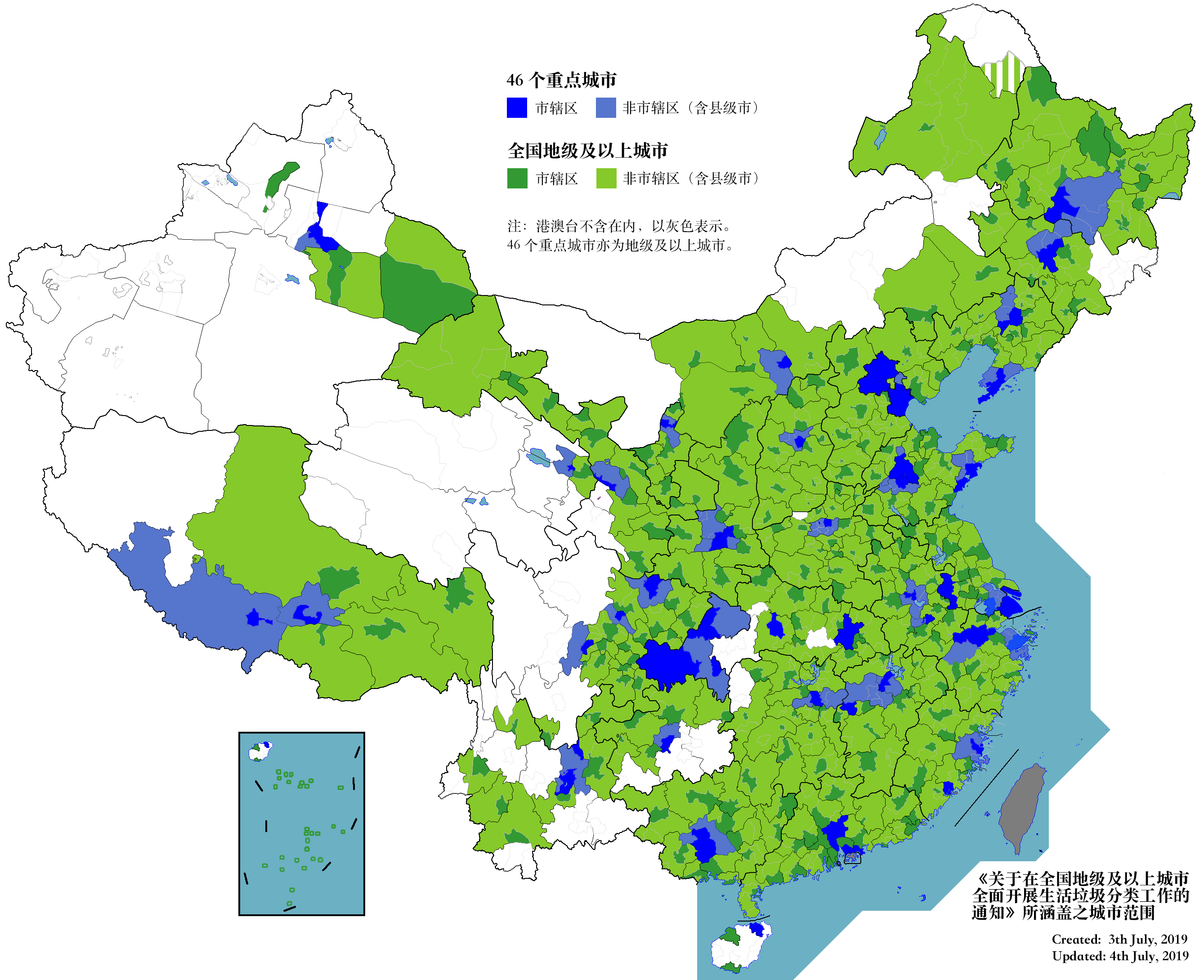 Waste sorting in China zh-hans